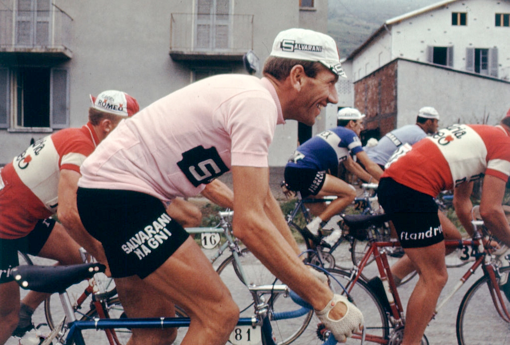 The Italian cyclist Vittorio Adorni wearing the pink jersey during the 20th stage of the Giro d'Italia Madesimo-Stelvio. Italy, 3rd June 1965